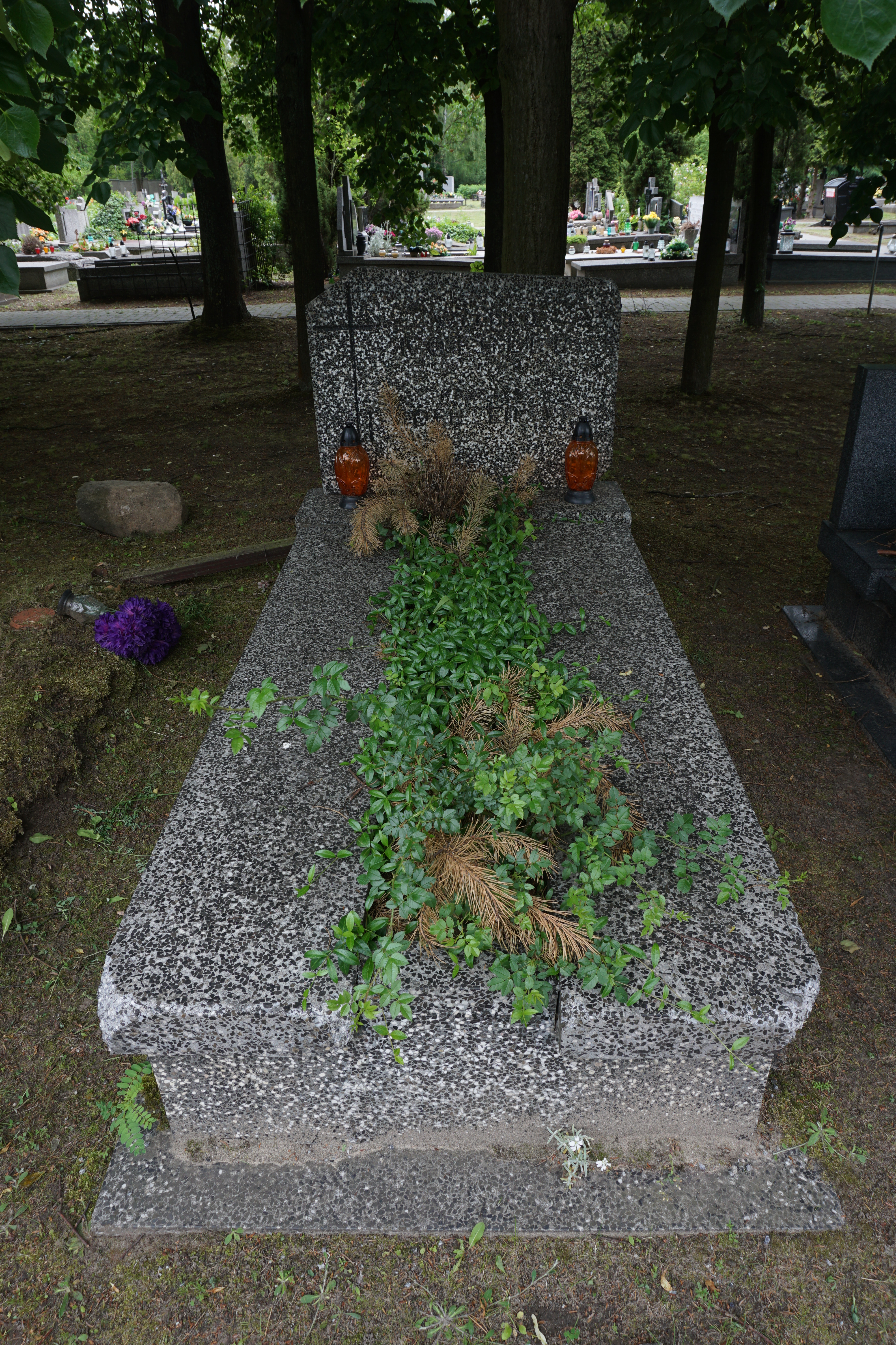 The grave of Witold Koehler at the North Municipal Cemetery in Warsaw (section E-XVII-1, row 3, grave 20)